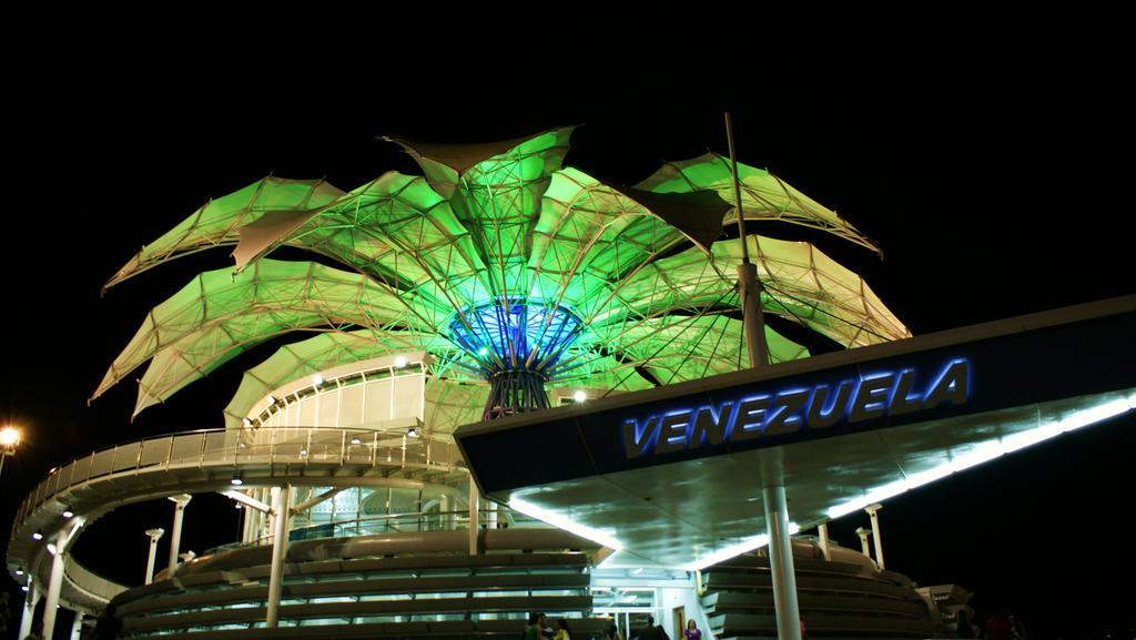 The 'Flower of Venezuela' building - illuminated replica in Barquisimeto (Venezuela) of the Venezuelan Pavilion in Hannover (Germany).